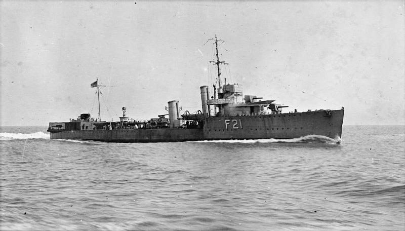 Photograph of British V class destroyer HMS VENTUROUS fitted out as a minelayer with canvas screen aft to hide the mines. Note gun painted on the canvas screen.